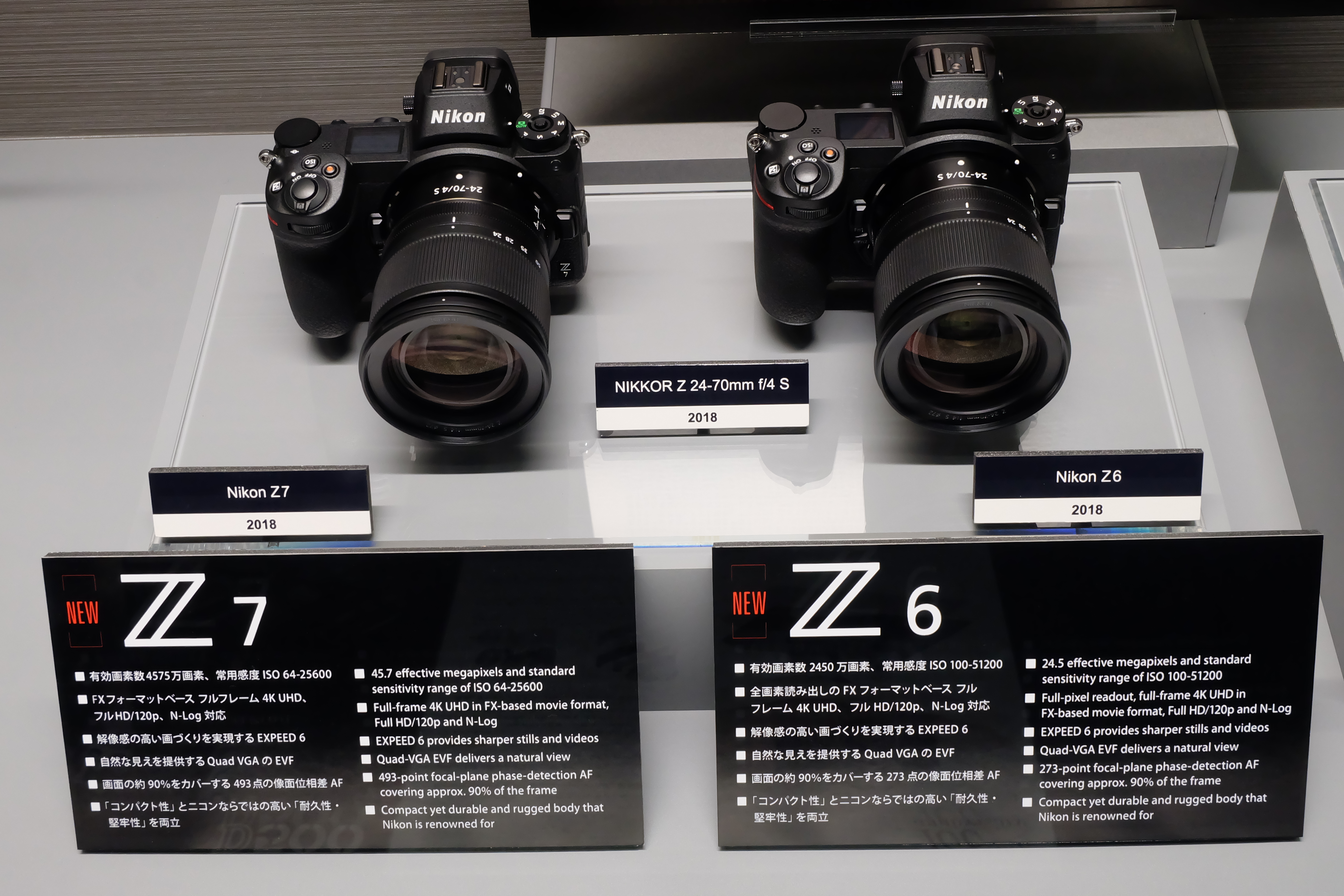 Nikon Z 7, photo taken at Nikon Museum